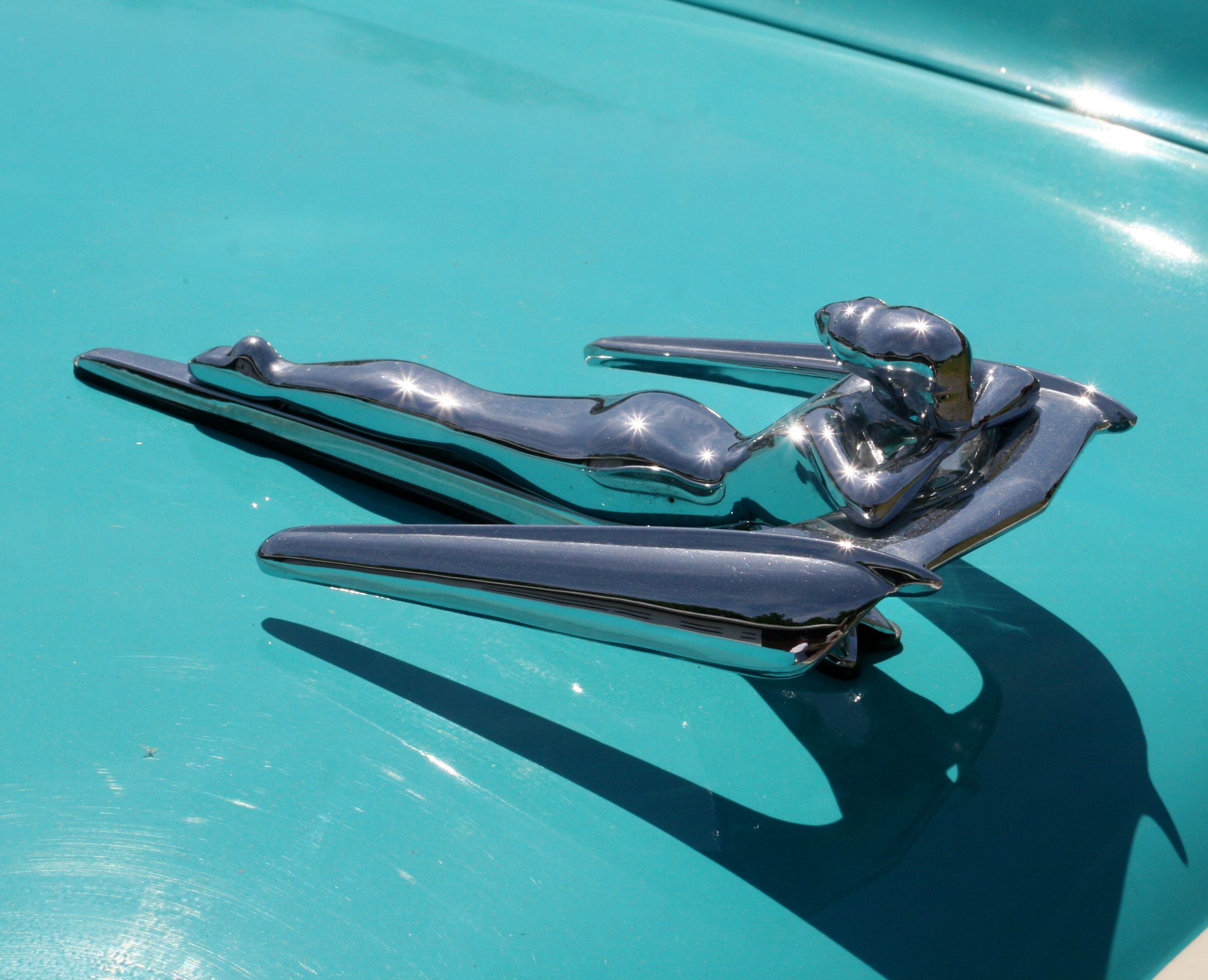 Nash Hood Ornament - Detail from a Nash Metropolitan at the Drive She Said! 36th annual Citroën Rendezvous.